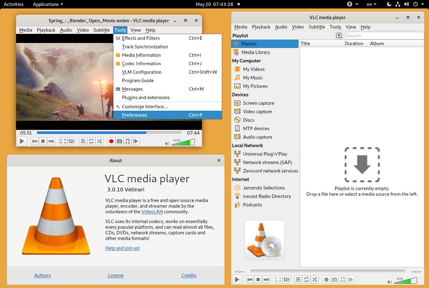 VLC media player 3.0.10 This PNG graphic was created with GIMP.